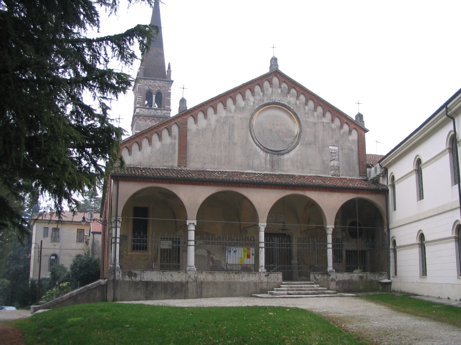 Batch Photo By wanblee =